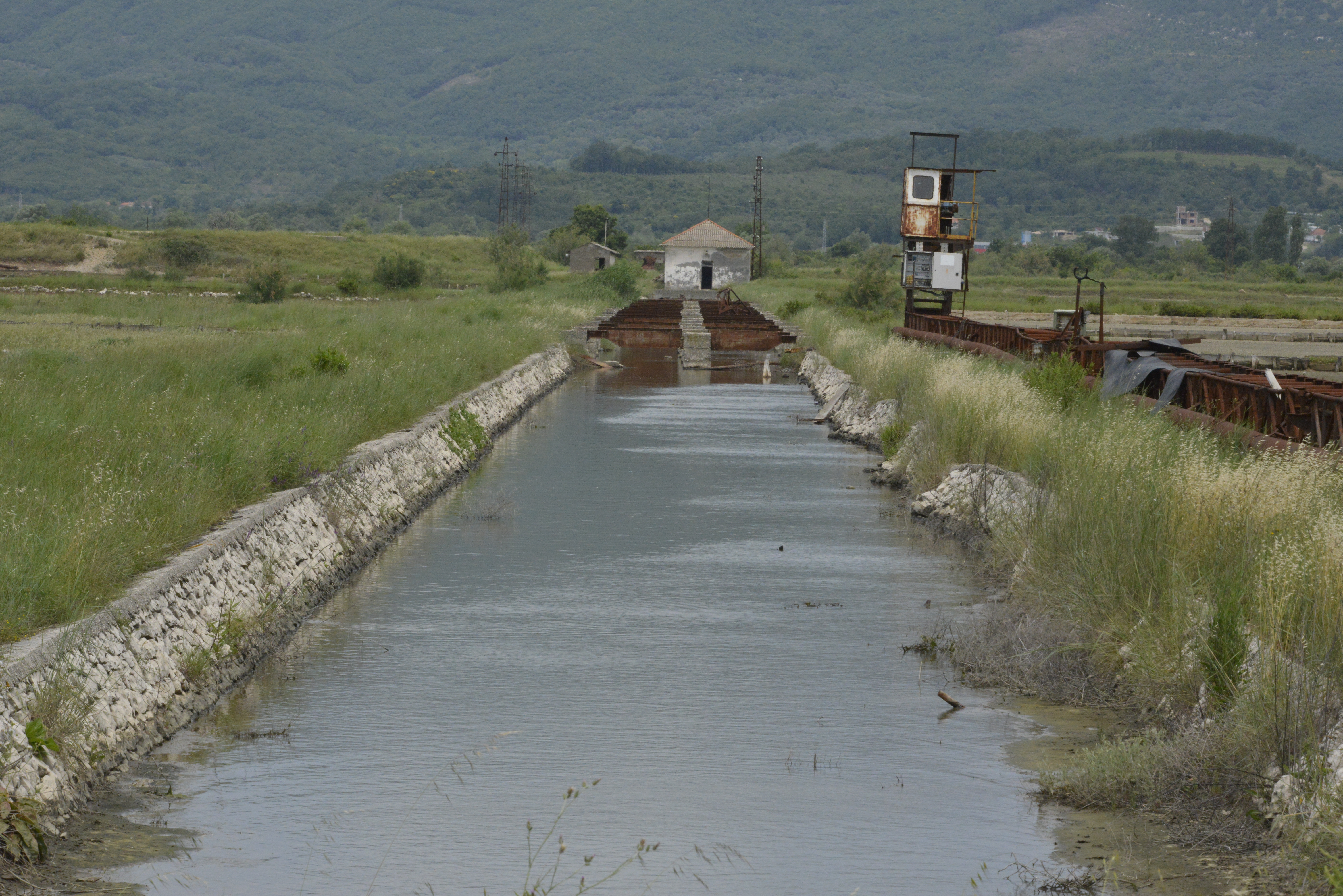 Ulcinj Salinas, summer 2019